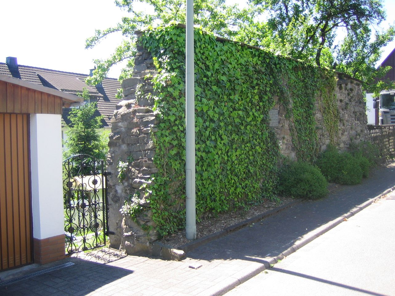 Rest der ehemaligen Stadtmauer in Hallenberg